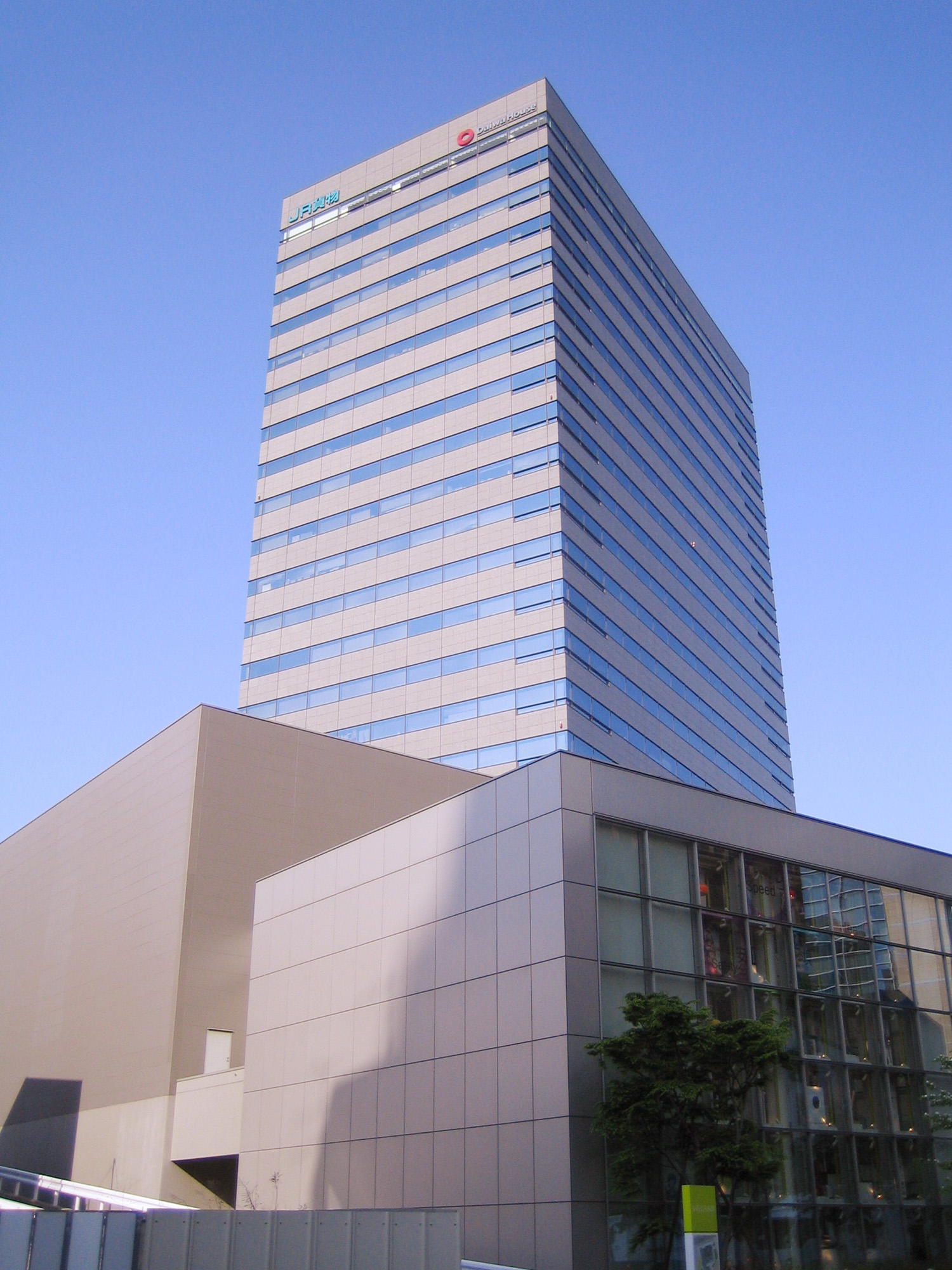 Former Japan Freight Railway Company (日本貨物鉄道株式会社), Daiwa House Tokyo Building, in Iidabashi, Chiyoda, Tokyo, Japan